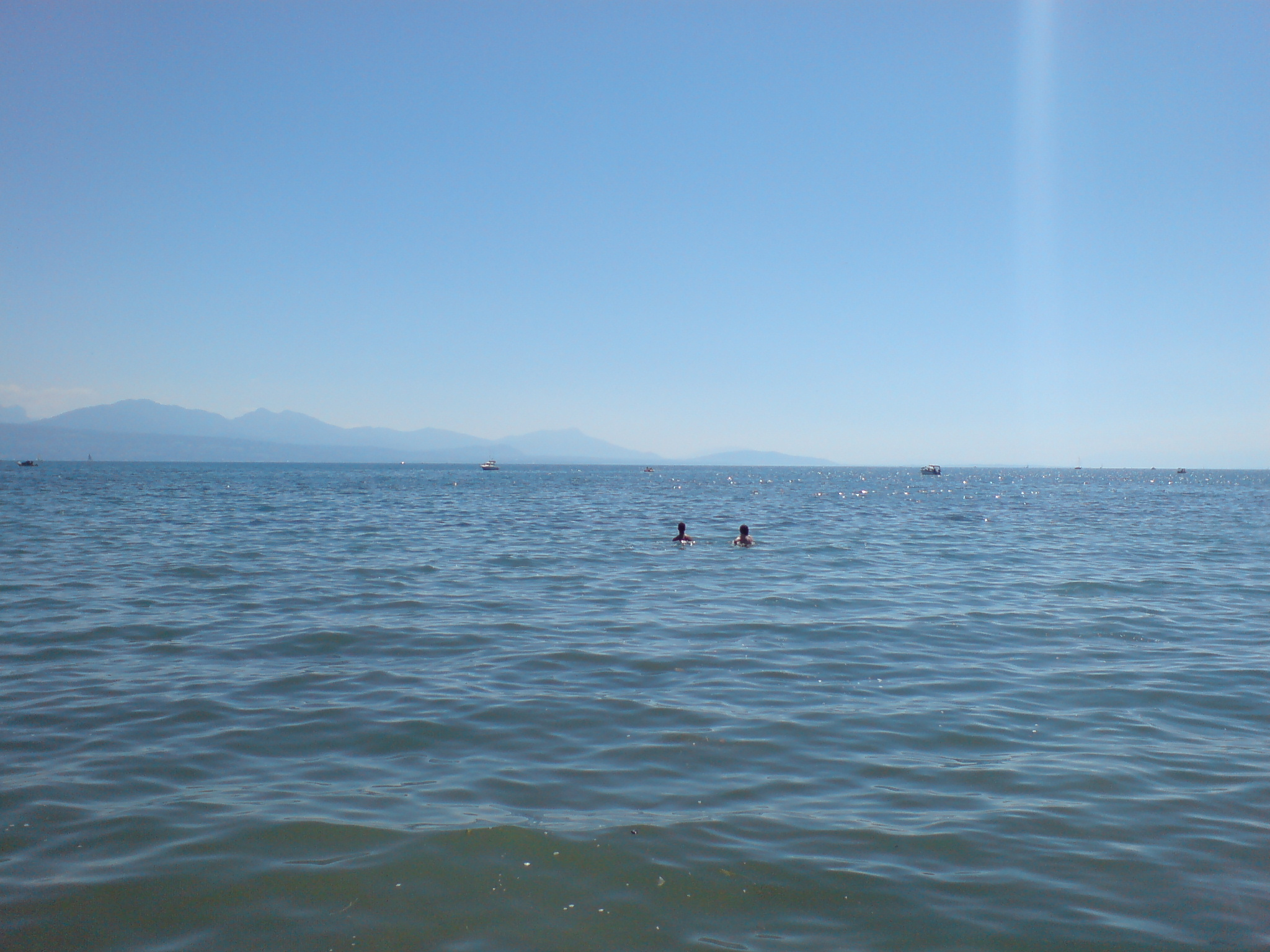 This is a photo of Lake Geneva seen from Vidy beach in Lausanne.